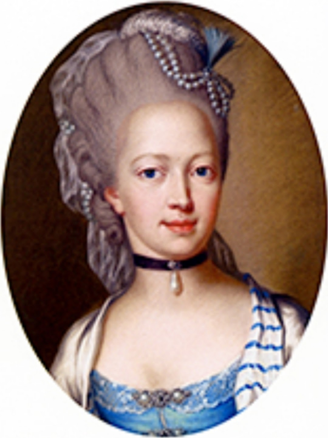 Portrait of Princess Wilhelmina Caroline of Denmark (1747-1820), electress of Hesse-Kassel